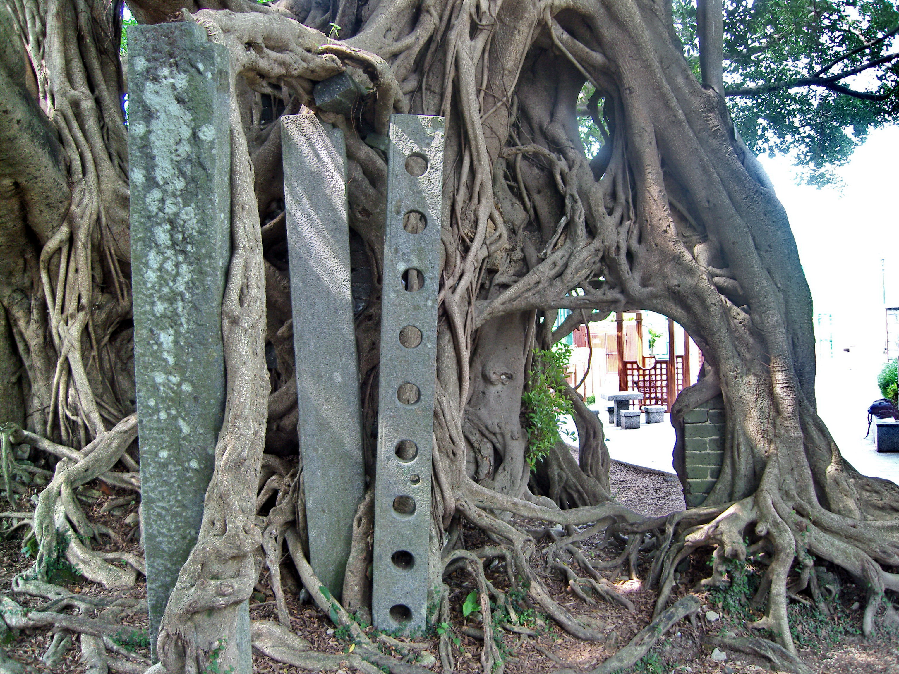 Kam Tin Tree House (An old banyan tree grew bigger and bigger besides the stone house, and after centuries, there're only part of brick walls and a granite doorframe left under the huge tree.) in Shui Mei Village Kam Tin, Hong Kong.